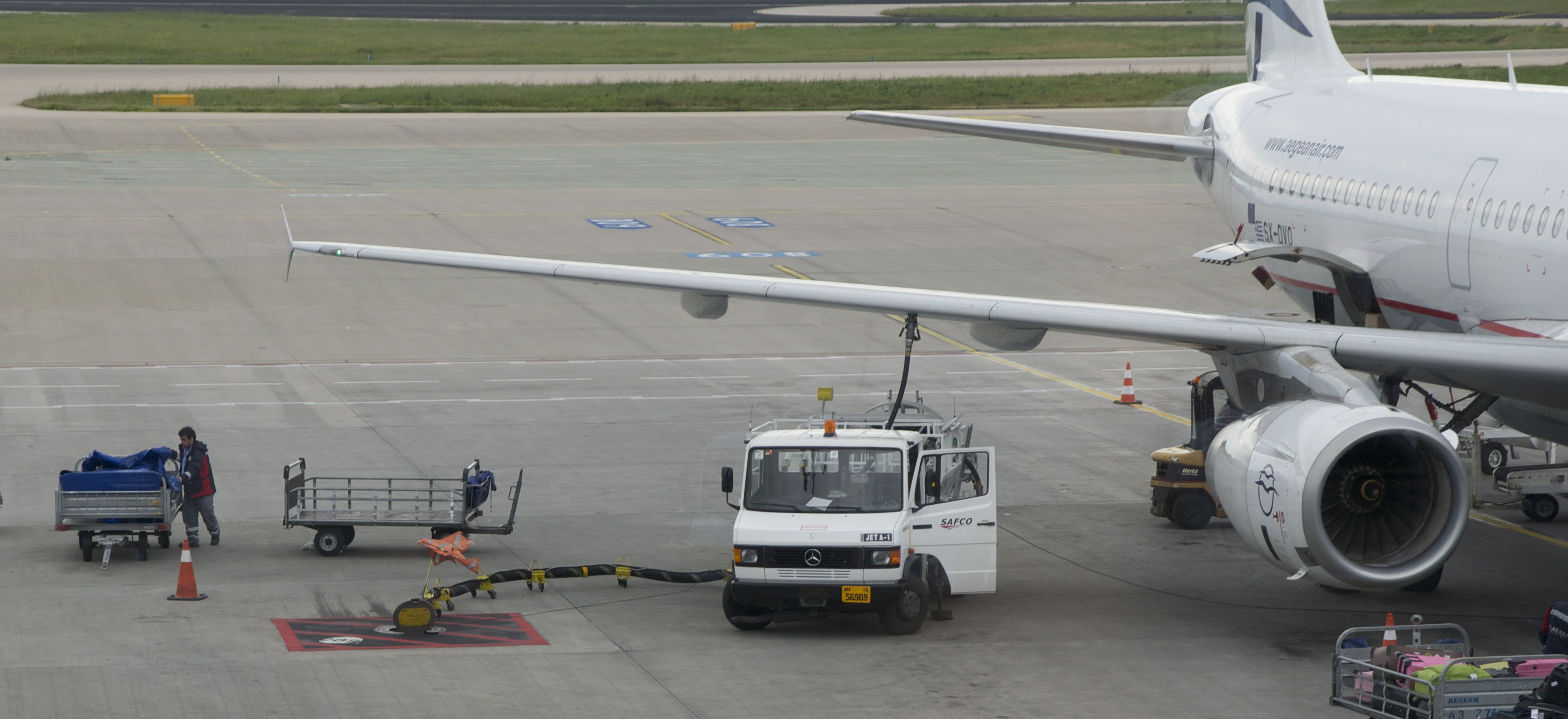 refueling of a plane in Athens International Airport..